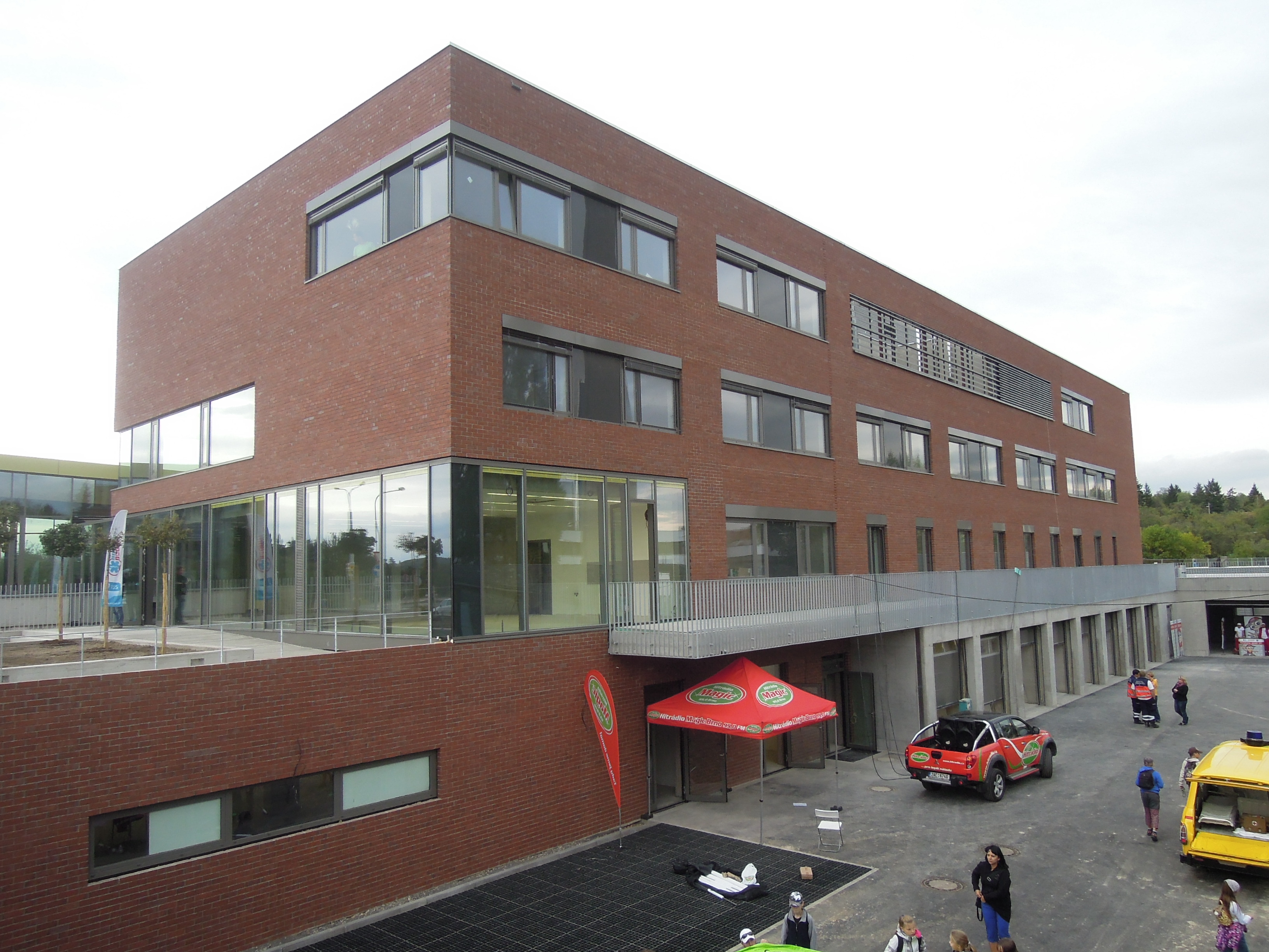 Center and ambulance station of Zdravotnická záchranná služba Jihomoravského kraje in Brno, South Moravian Region, Czech Republic